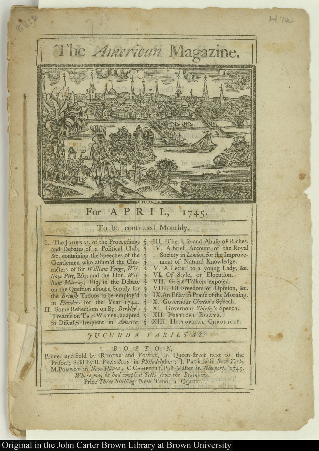 Source Title: The American magazine. For April, 1745. Source place of publication: Boston. Source publisher: Printed and Sold by Gamaliel Rogers and Daniel Fowle ... B. Franklin ... J. Parker ... M. Pomroy ... C. Campbell. "The American Magazine and Historical Chronicle began publication in 1743 with James Turner's view of Boston from the North End to Fort Hill as its headpiece. The newly built Faneuil Hall is included in this view. The Indian and the palm tree had been symbols of the colony of Massachusetts since the seventeenth century and appeared on the earliest coins and paper money issued."